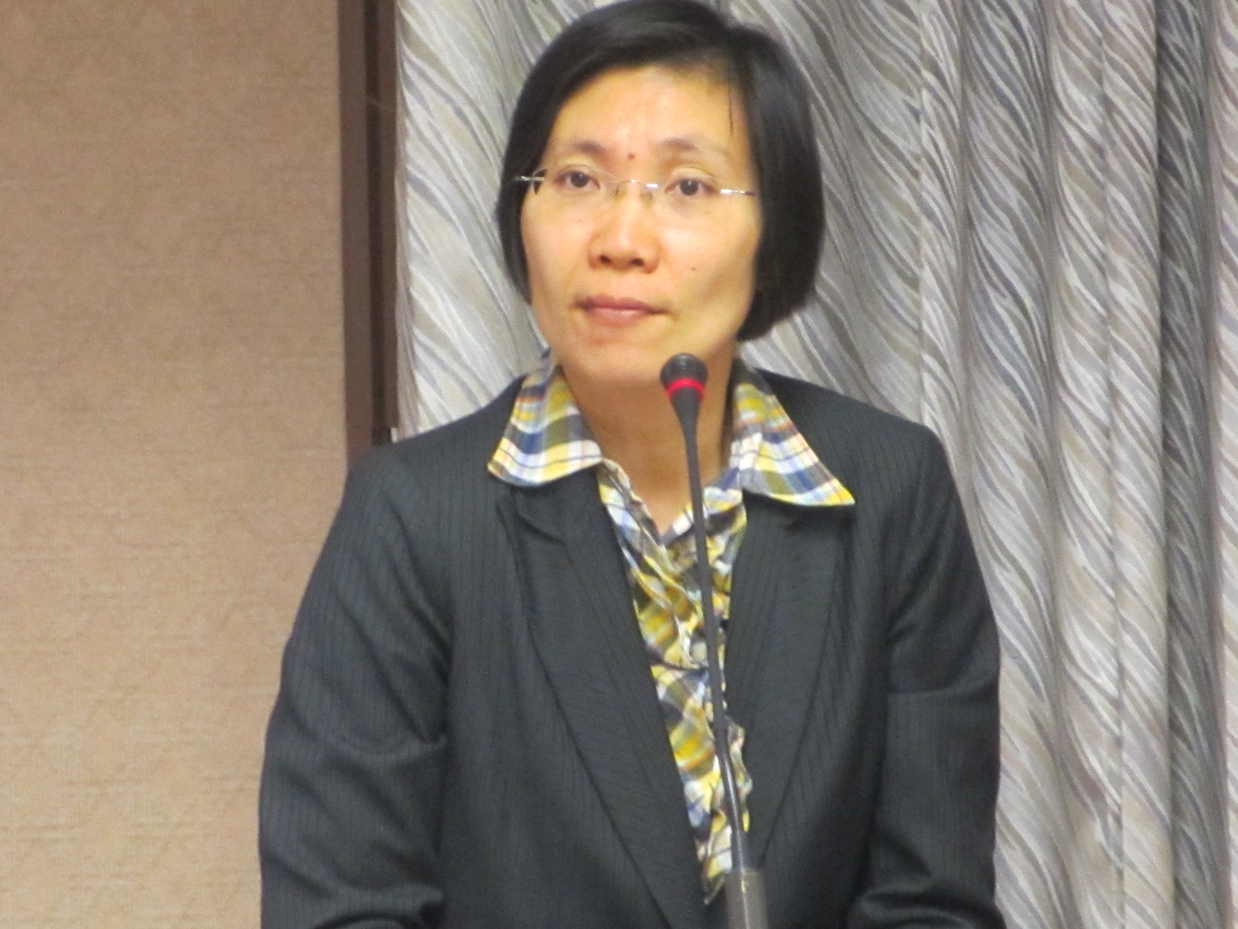 Hsu Hsin-ying